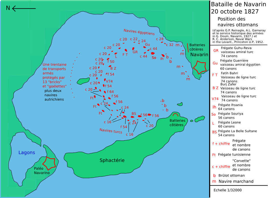 Position des navires ottomans, avant la bataille. Ottoman ships location, before the battle.